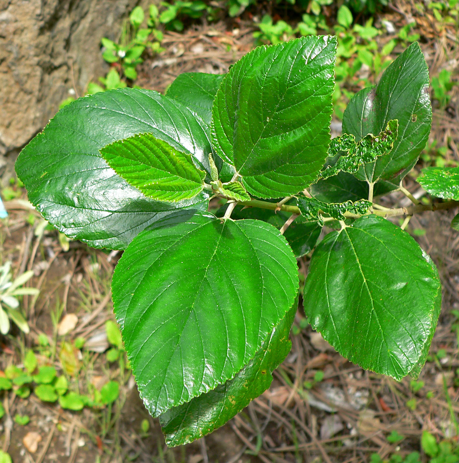 Photo of Ceanothus arboreus at the Regional Parks Botanic Garden, Berkeley, California